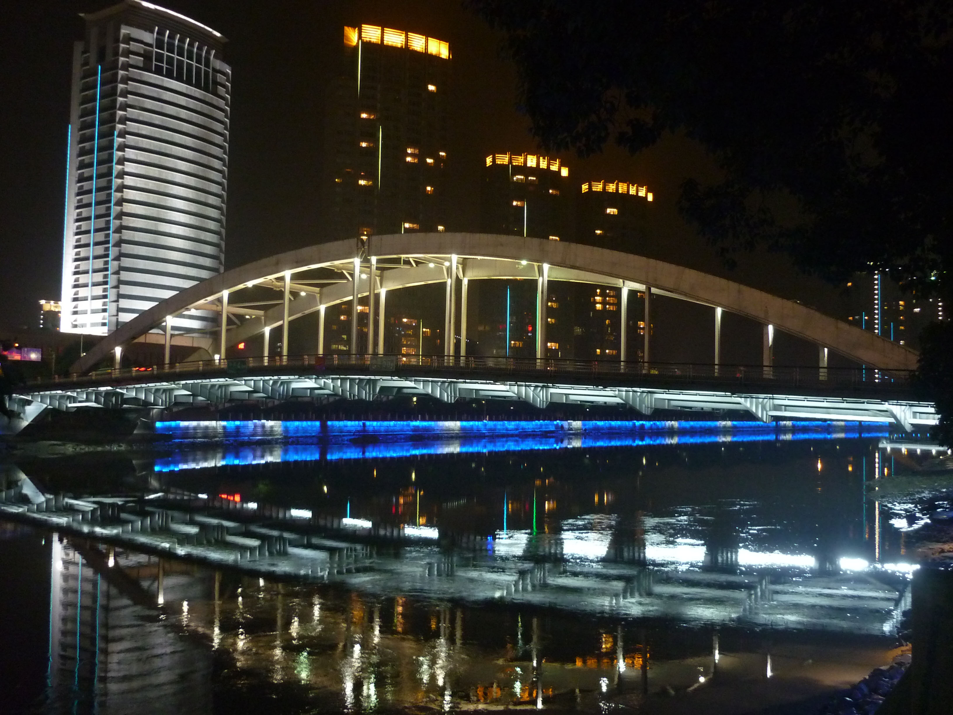 Lingqiao in Ningbo